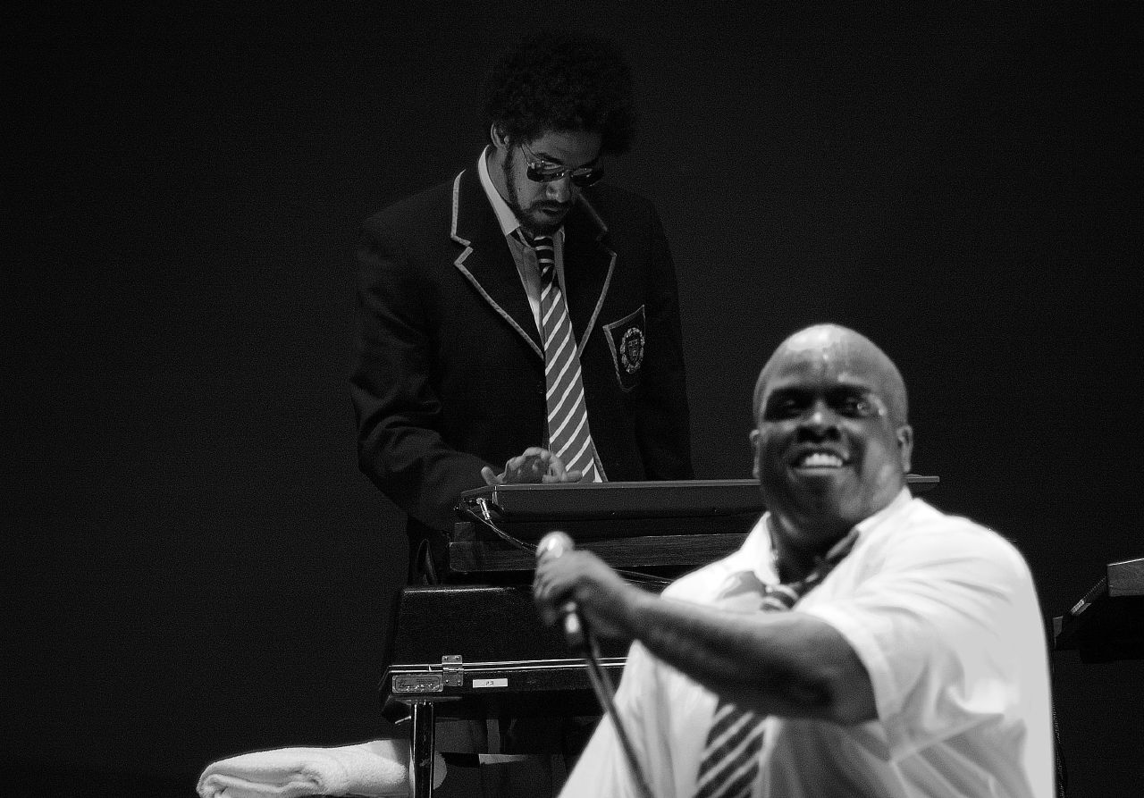 Copyright Diego DeNicola 2007